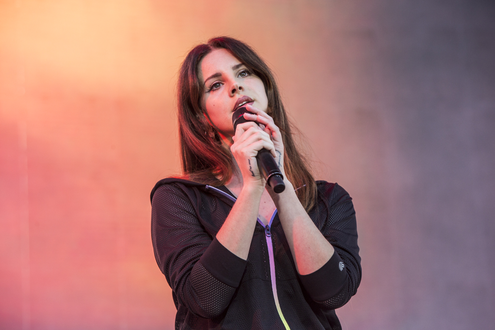 Lana Del Rey performing during her show at 2017 KROQ Weenie Roast festival in Carson, California, United States.